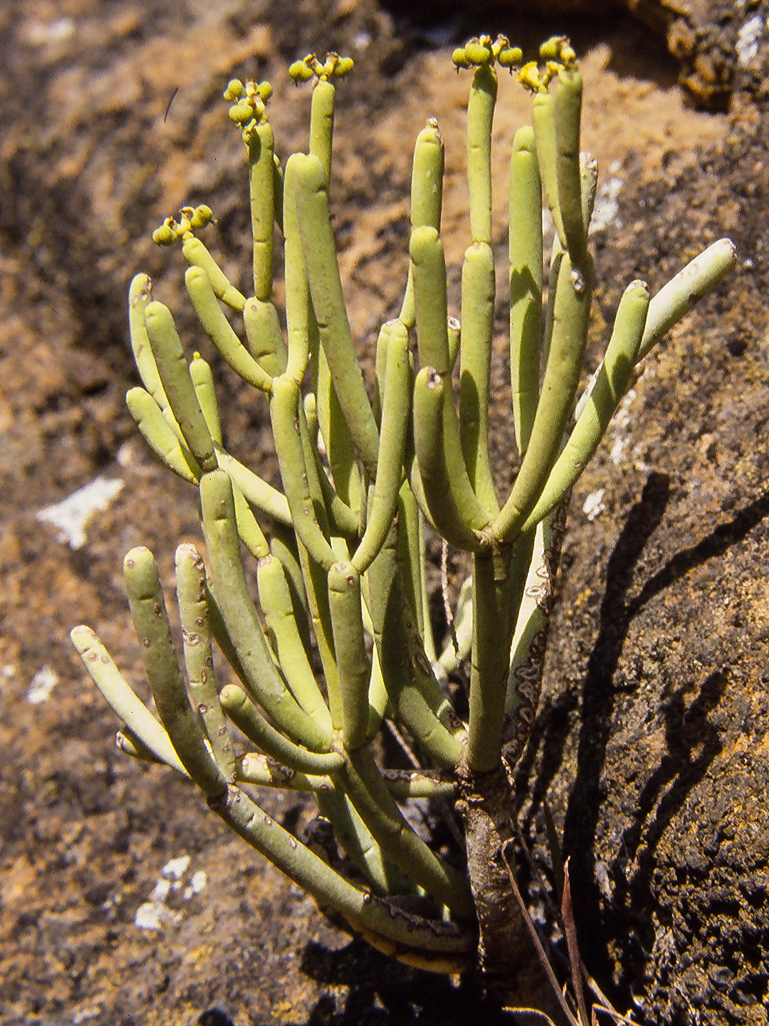 Euphorbia aphylla, in habitat on rocky ground, Teno, Tenerife; converted from an original slide photograph taken on 1 April 1989